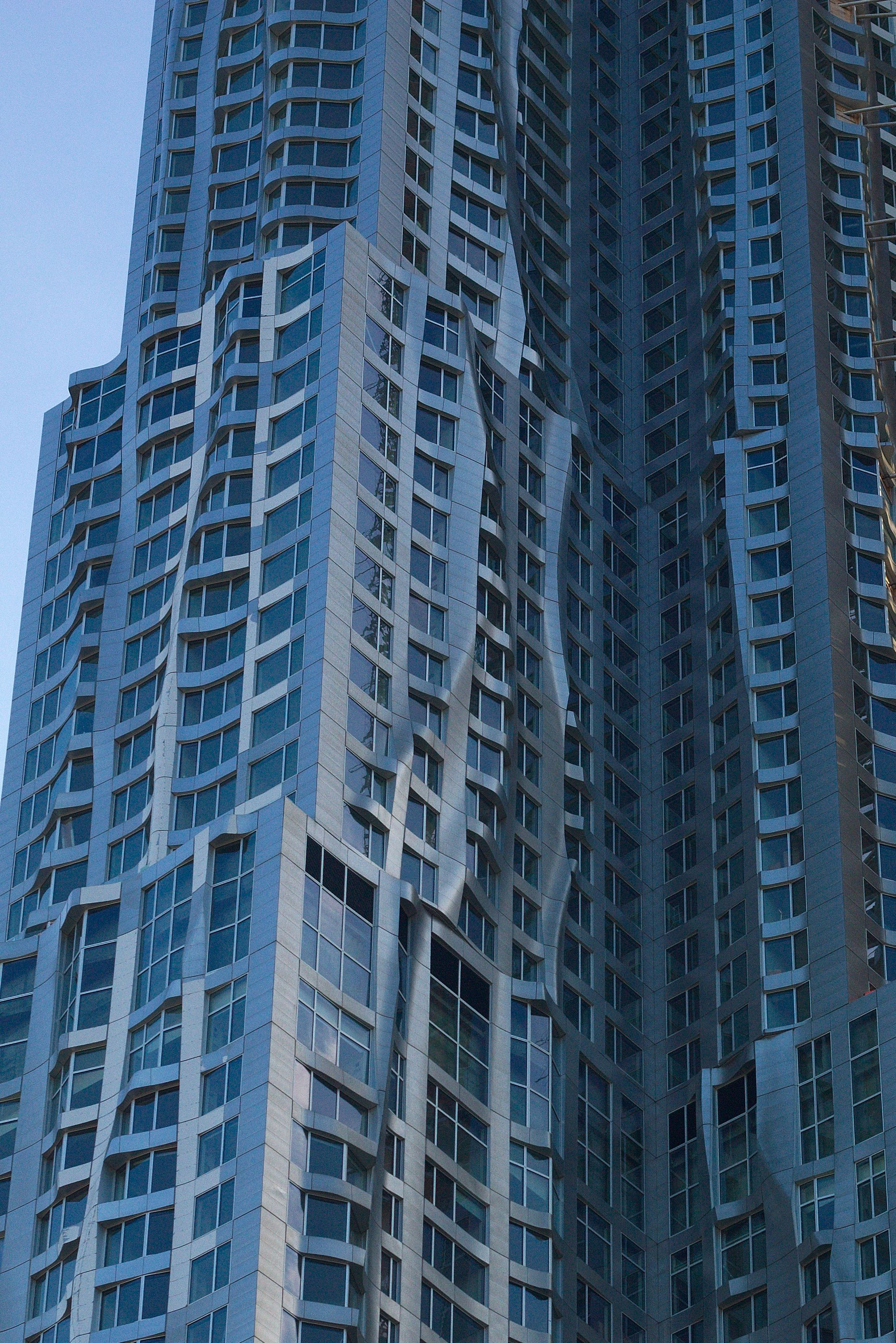 Facade of 8 Spruce Street, New York City